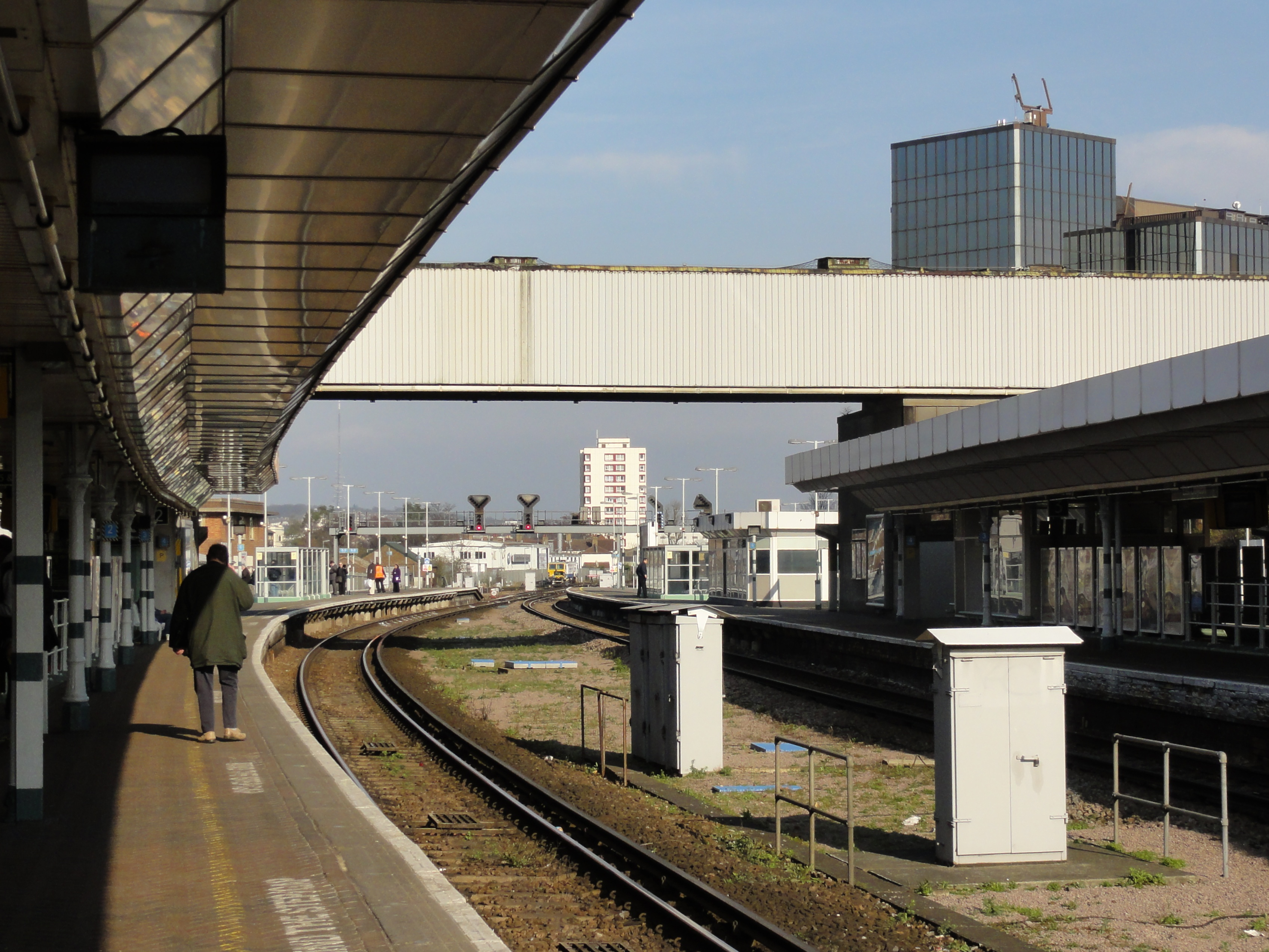 View from platform 2 towards platform 3 at East Croydon station